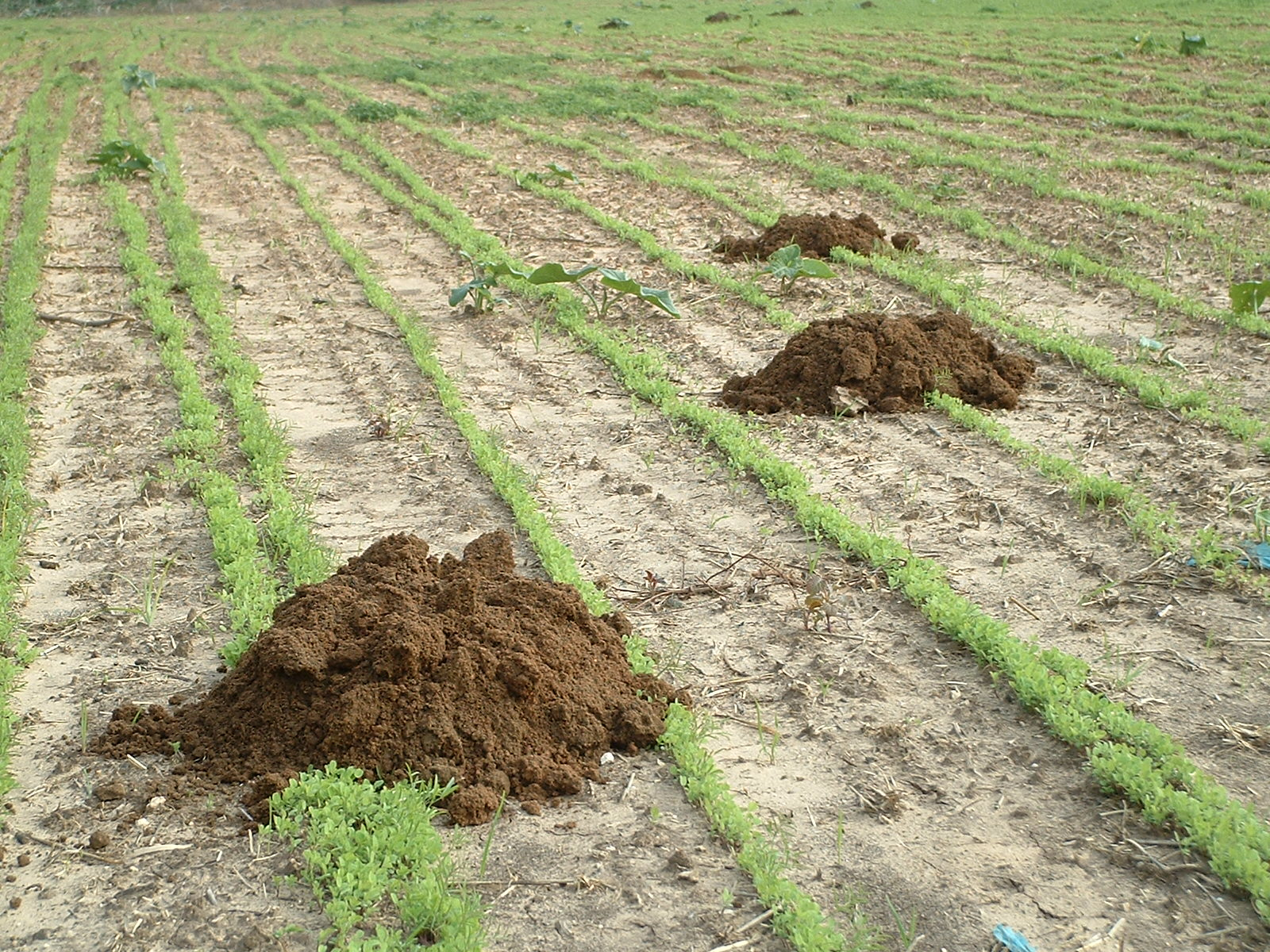 Soil mounds of Nannospalax ehrenbergi (Palestine mole rat) in a field in Karkur, Israel